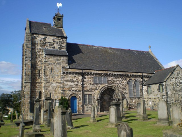 Kirkliston Parish Church Gravestones here go back many centuries